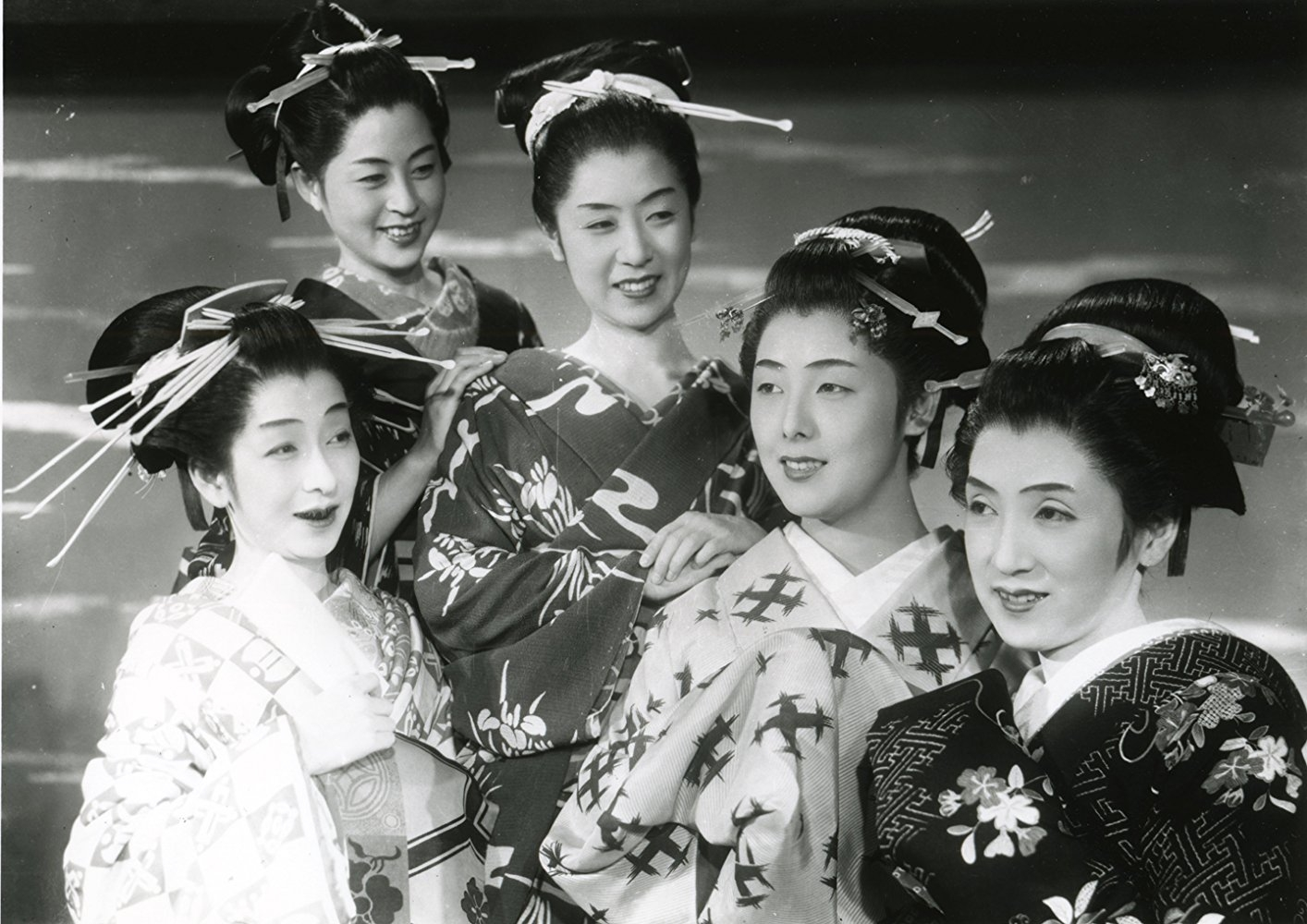 From left to right in the foreground: Toshiko Iizuka, Kinuyo Tanaka, Eiko Ōhara and Hiroko Kawasaki in Utamaro o meguru gonin no onna (1946) directed by Kenji Mizoguchi